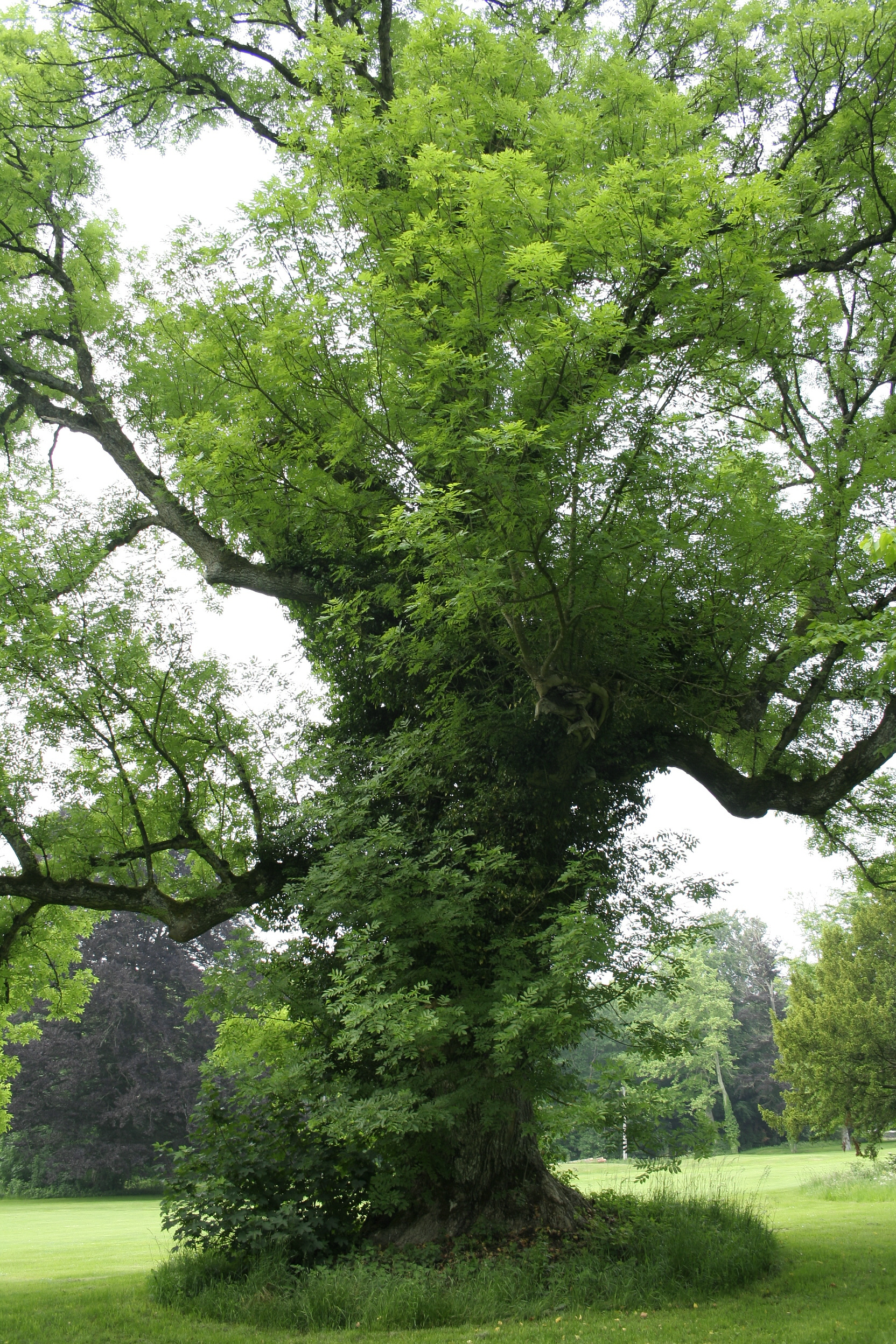 Ash